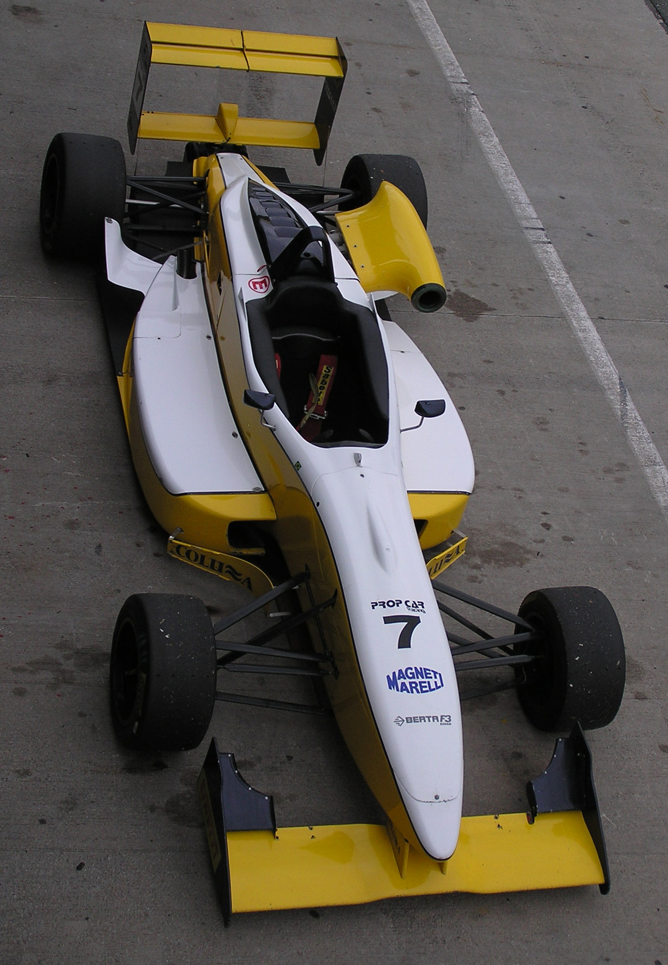 Formula 3 South America: Prop Car. Dallara F301